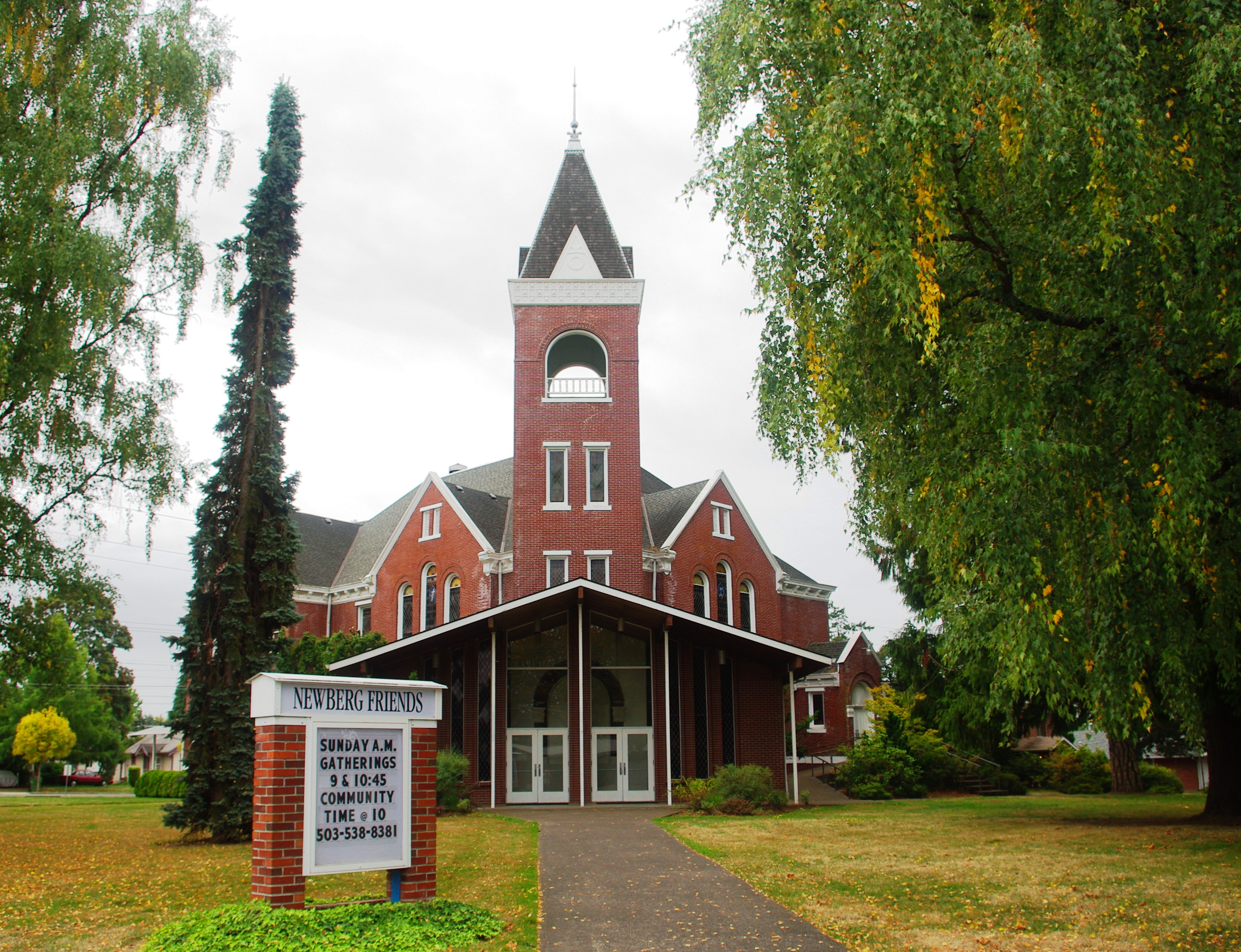 Friends Church in Newberg, Oregon